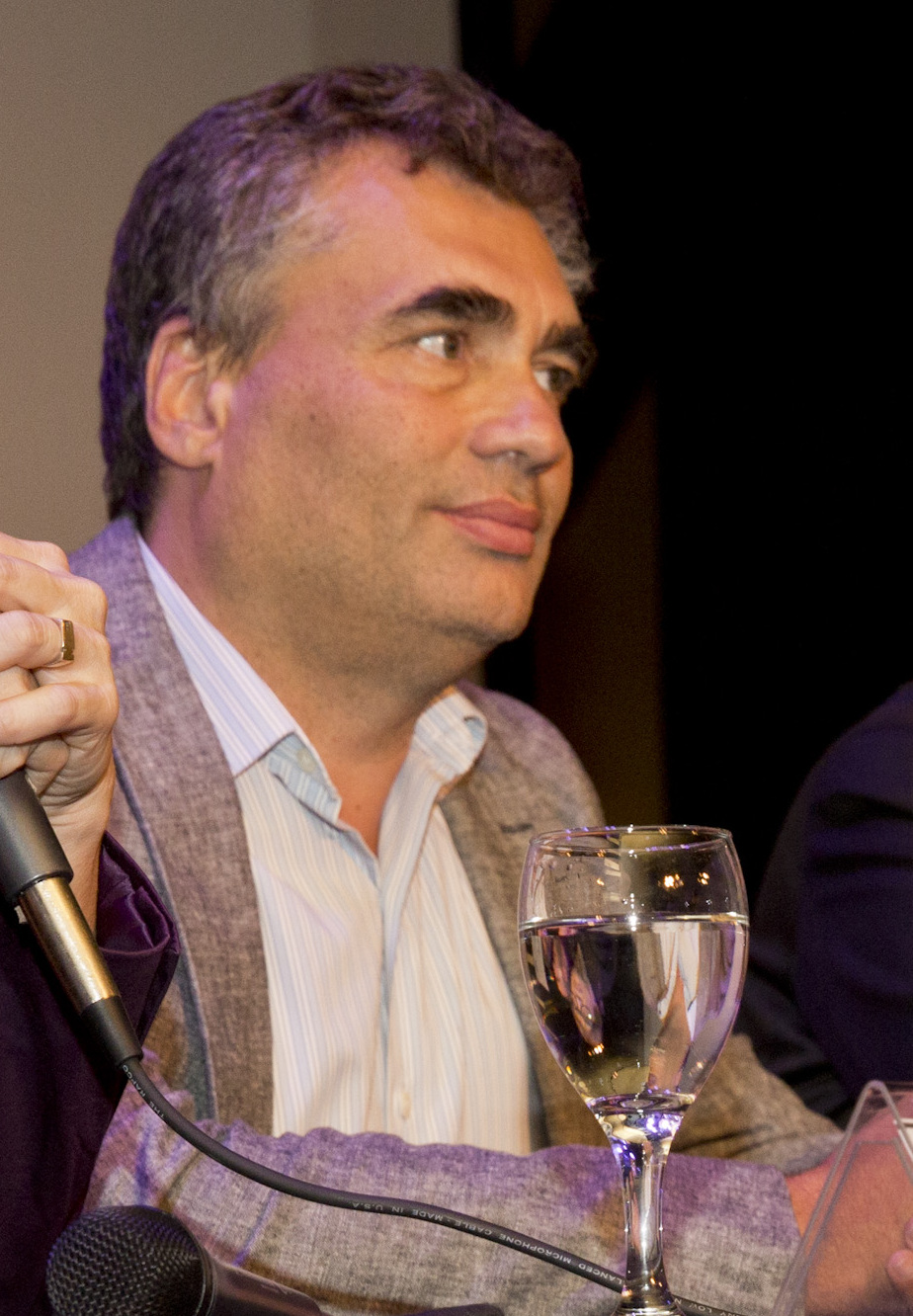 Barracas, 09 de abril de 2015.- La ministra de Cultura de la Nación, Teresa Parodi, y el presidente del Banco Central de la República Argentina, Alejandro Vanoli, inauguraron la exposición “Territorios”, en la Casa Central de la Cultura Popular. También estuvieron presentes el subsecretario de Promoción de Derechos Culturales y Participación Popular, Emiliano Gareca; la subsecretaria de Cultura Pública y Creatividad, María Elena Troncoso; el Director de la Casa Central de la Cultura Popular, Mario Gómez; y la Coordinadora General del Programa Nacional de Fortalecimiento de la Cultura Popular, Julieta Chinchilla. Durante el acto, Parodi y Vanoli firmaron un convenio marco de colaboración entre las áreas, que prevé realizar actividades conjuntas, entre ellas, exhibiciones de obras de arte patrimonio del Banco, talleres, seminarios, conferencias, jornadas, atención y asesoramiento jurídico-financiero comunitario y encuentros culturales. Foto: Augusto Starita / Ministerio de Cultura de la Nación.